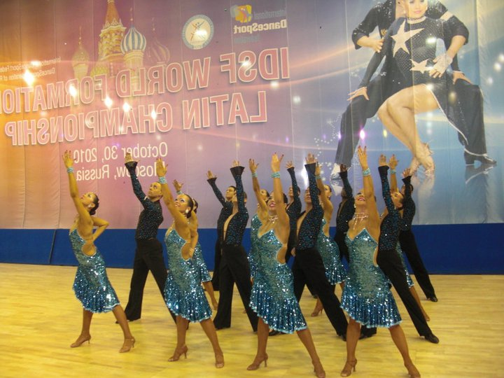 XS Latin performed Priscilla at the 2010 IDSF World Latin Formation Championships in Moscow and placed 13th